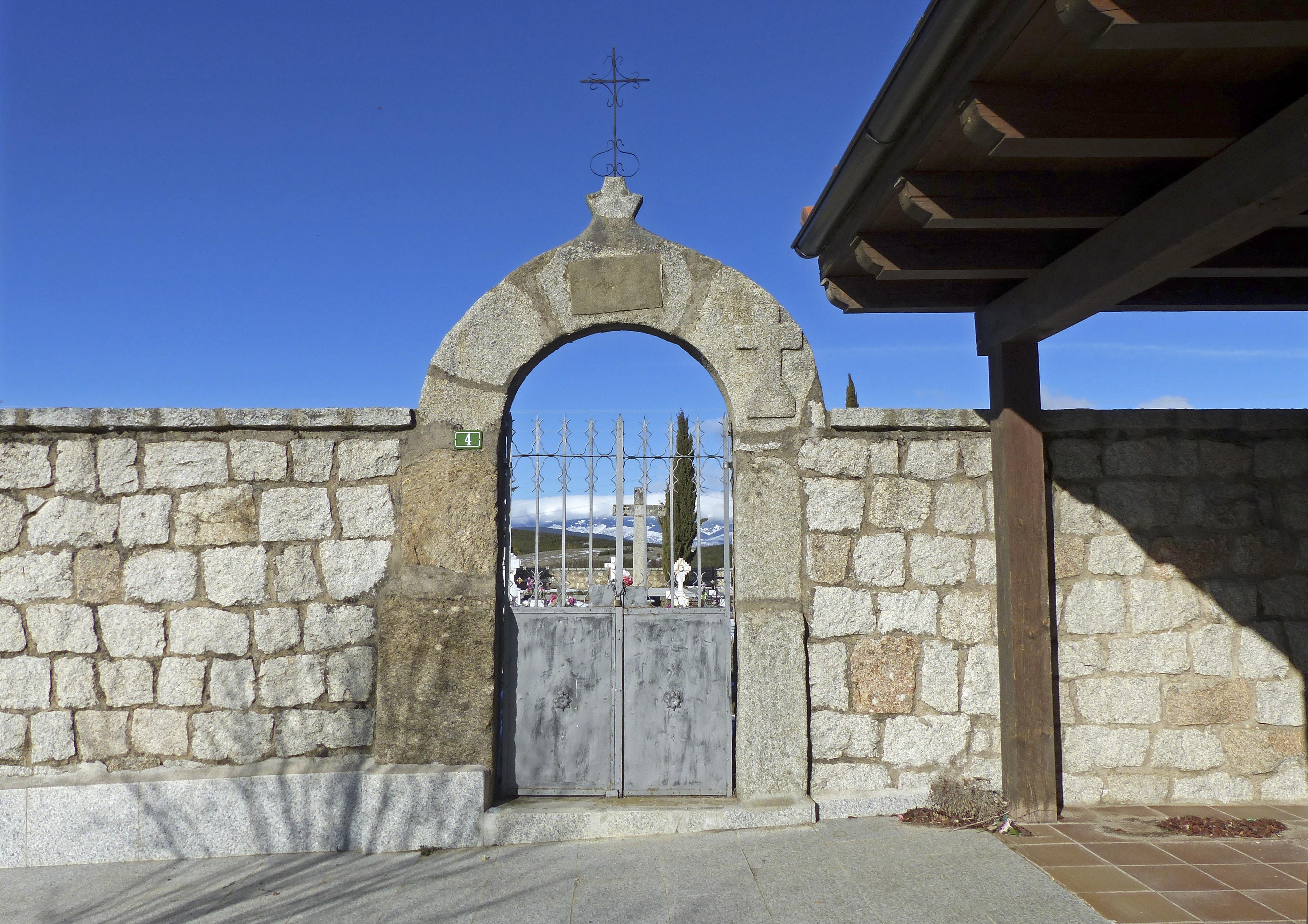 The Ermita de la Soledad disappeared by sinking by 1930, and its cover was later used for the Municipal Cemetery.